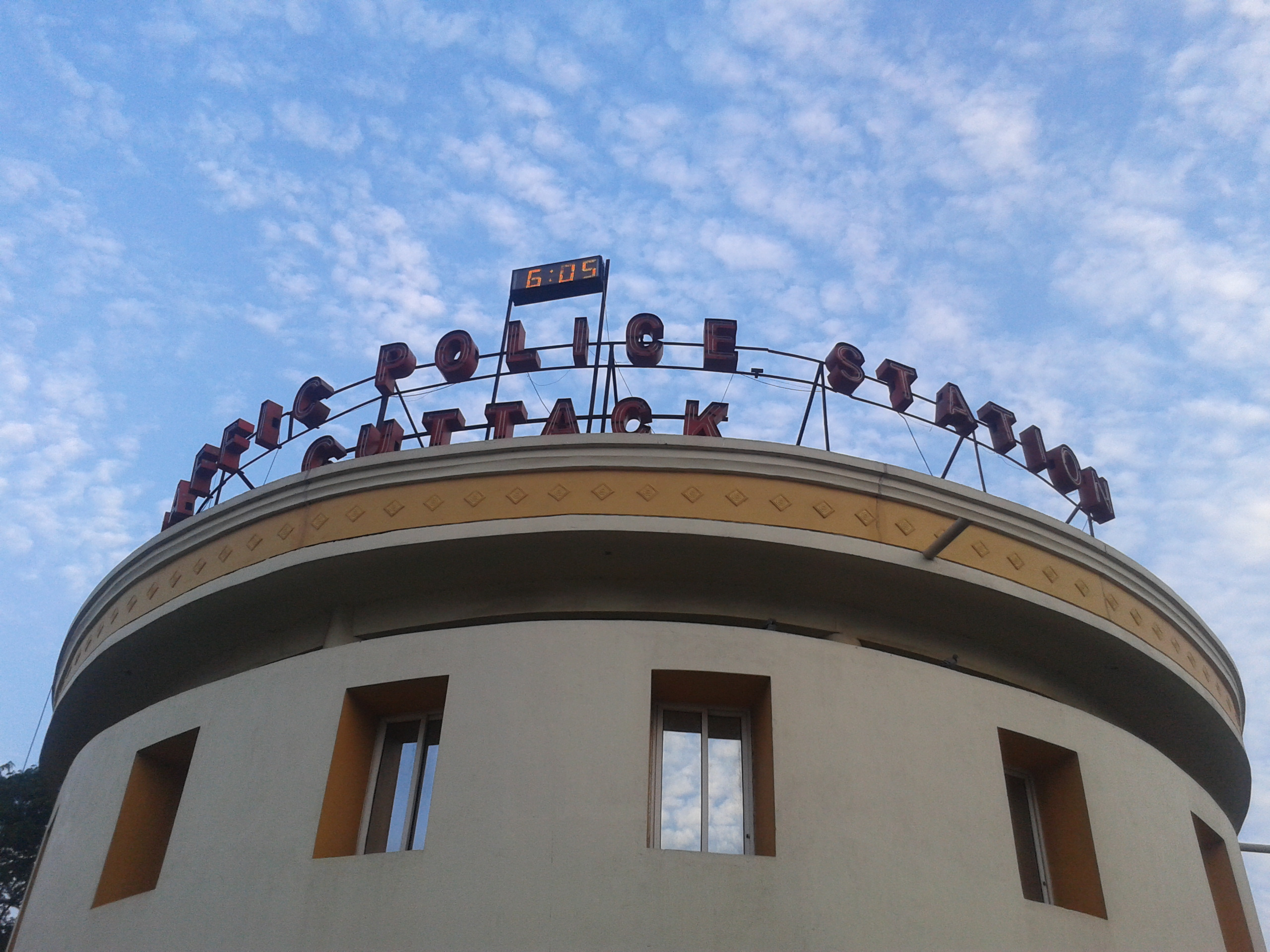 traffic police station at the junction of Link Road and Ring Road in Cuttack, Odisha, India